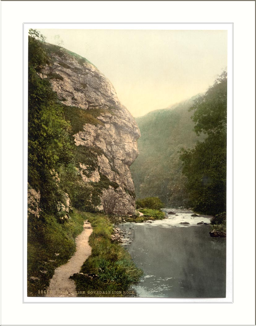 Dovedale Lion Rock Derbyshire England